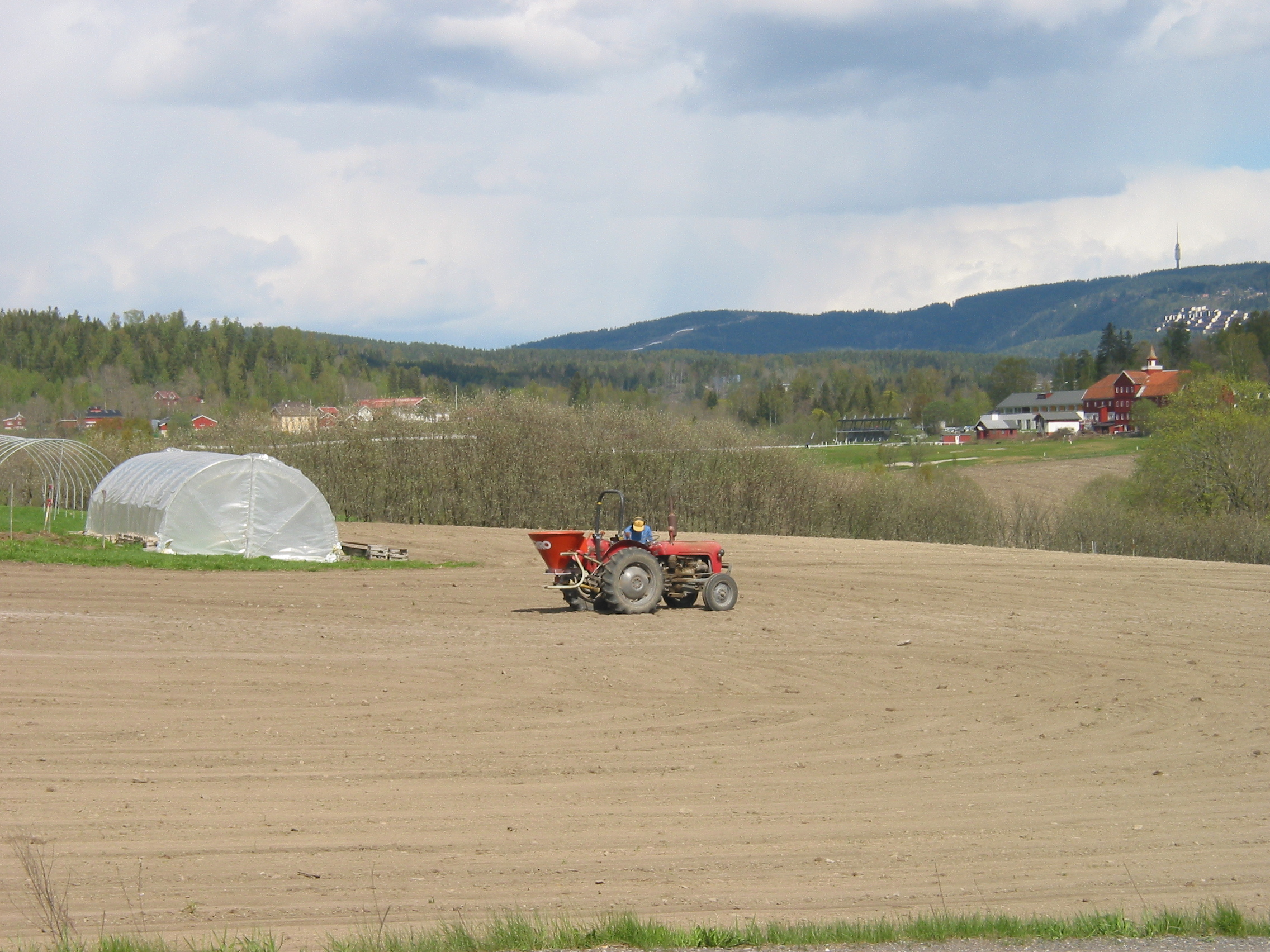 A farmer at Eastern Øverland farm. The Tryvann Tower in the background, to the right.